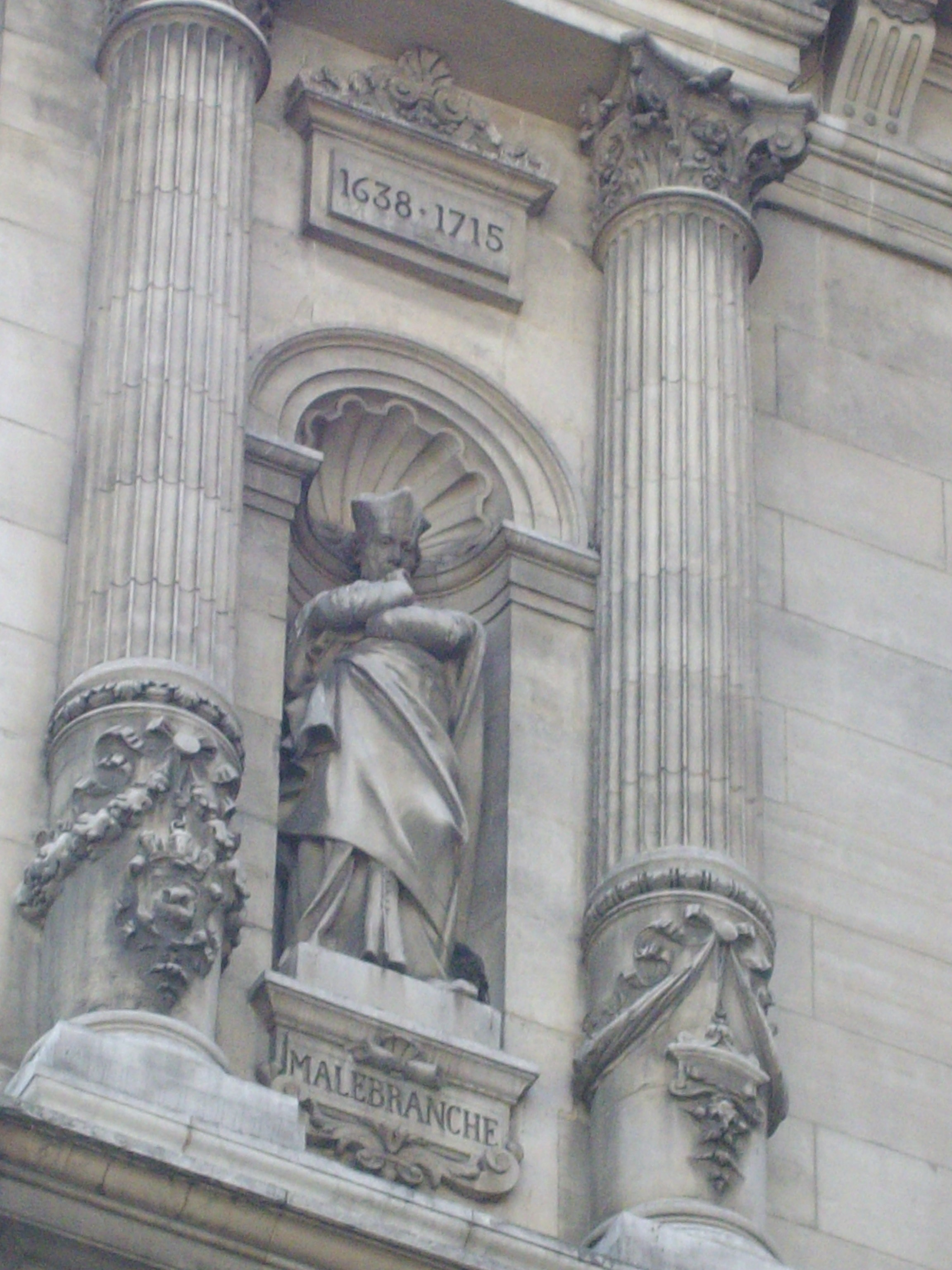 Statues of the City Hall in Paris, France